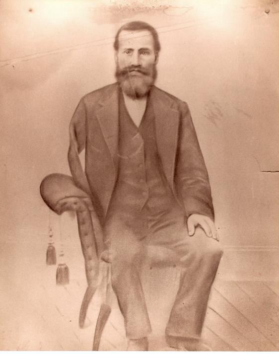 Lewish Breitenbucher circa 1870